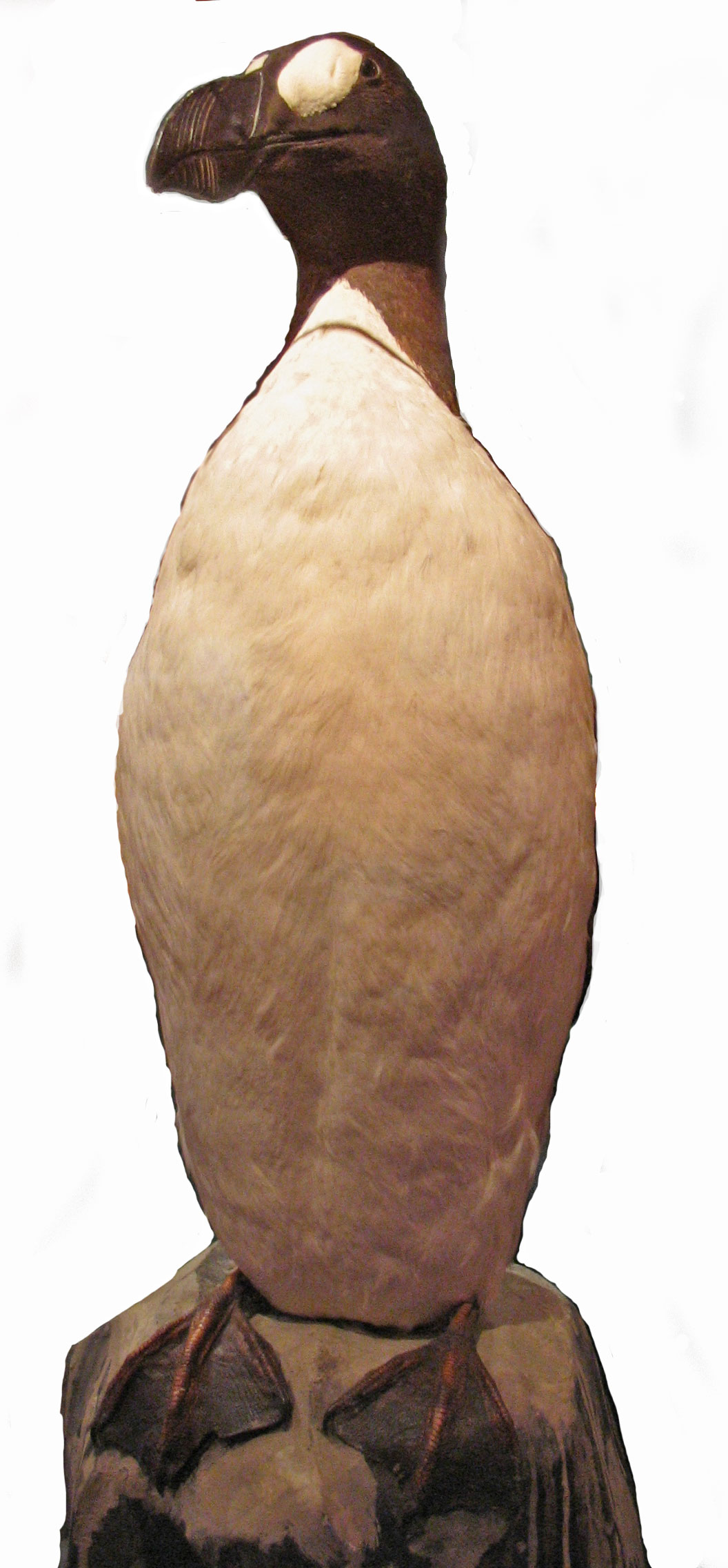 A Great Auk specimen in Naturkundemuseum Leipzig (Bird no. 44, the Leipzig Auk).